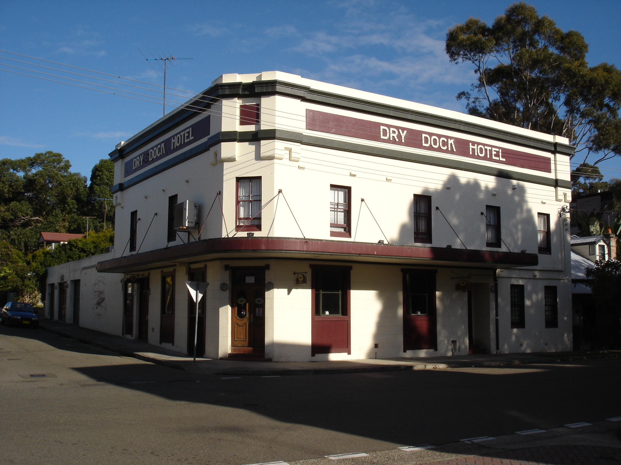 Dry Dock Hotel, Balmain. Picture taken on 28/5/06 by user Amitch.